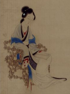 Yu Xuan ji, poet of the Tang Dynasty.